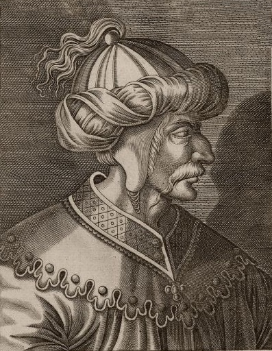 İsa Çelebi, the Co-Sultan of Anatolia during his reign. Son of Bayezid I and Devletşah Hatun.